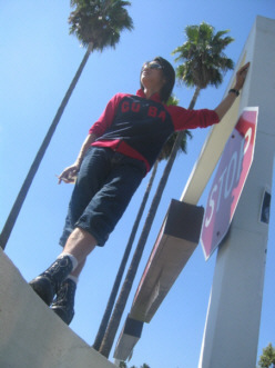 This photograph of Gao Qi of Overload Band shot with a digital camera in 2003 at a San Gabriel Valley strip mall complex.